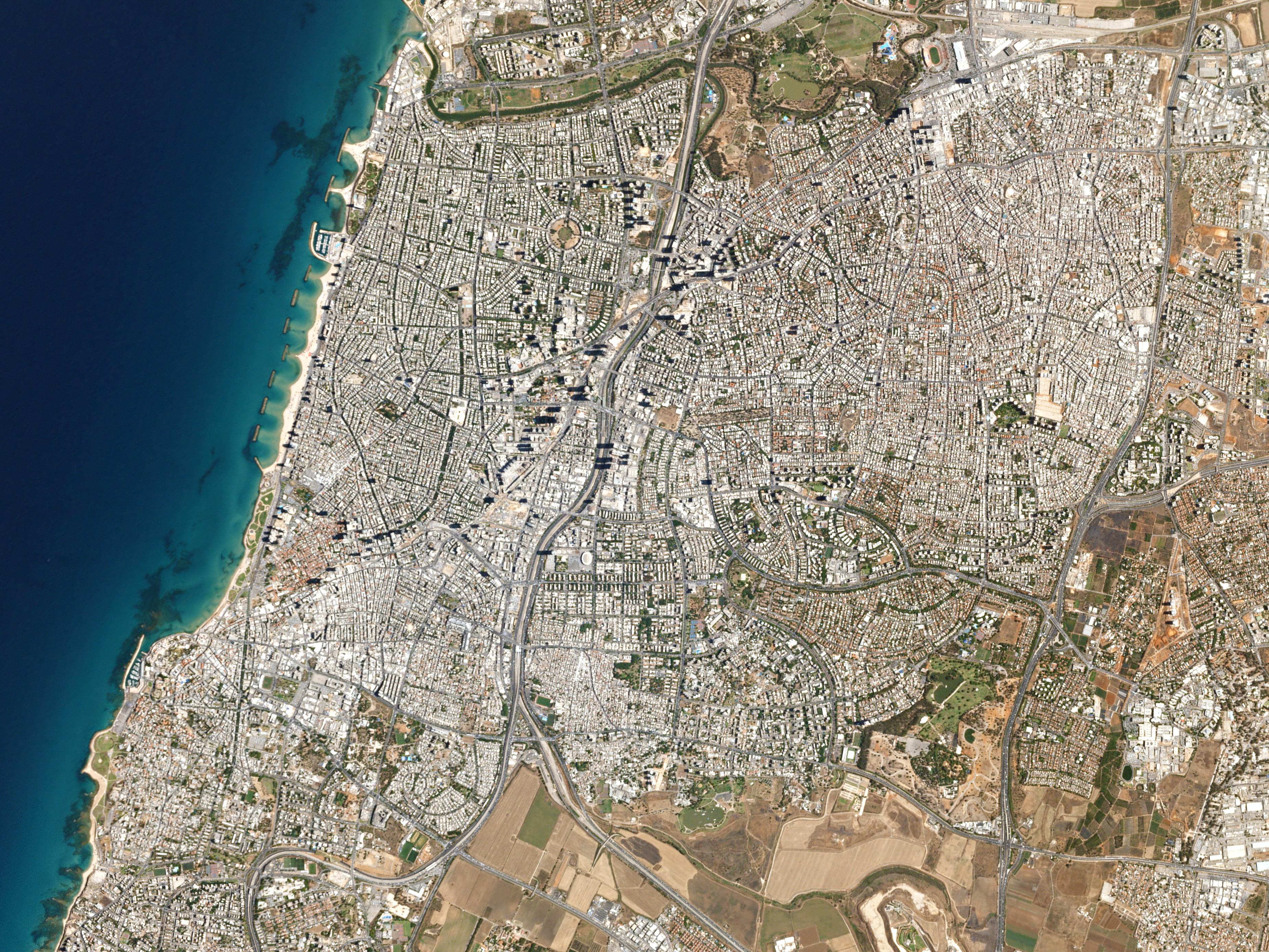 Tel Aviv Israel June 21, 2016 The wide boulevards and ordered super blocks of Tel Aviv’s White City, a UNESCO World Heritage Site, are part of a modernist urban master plan implemented in the 1930s.